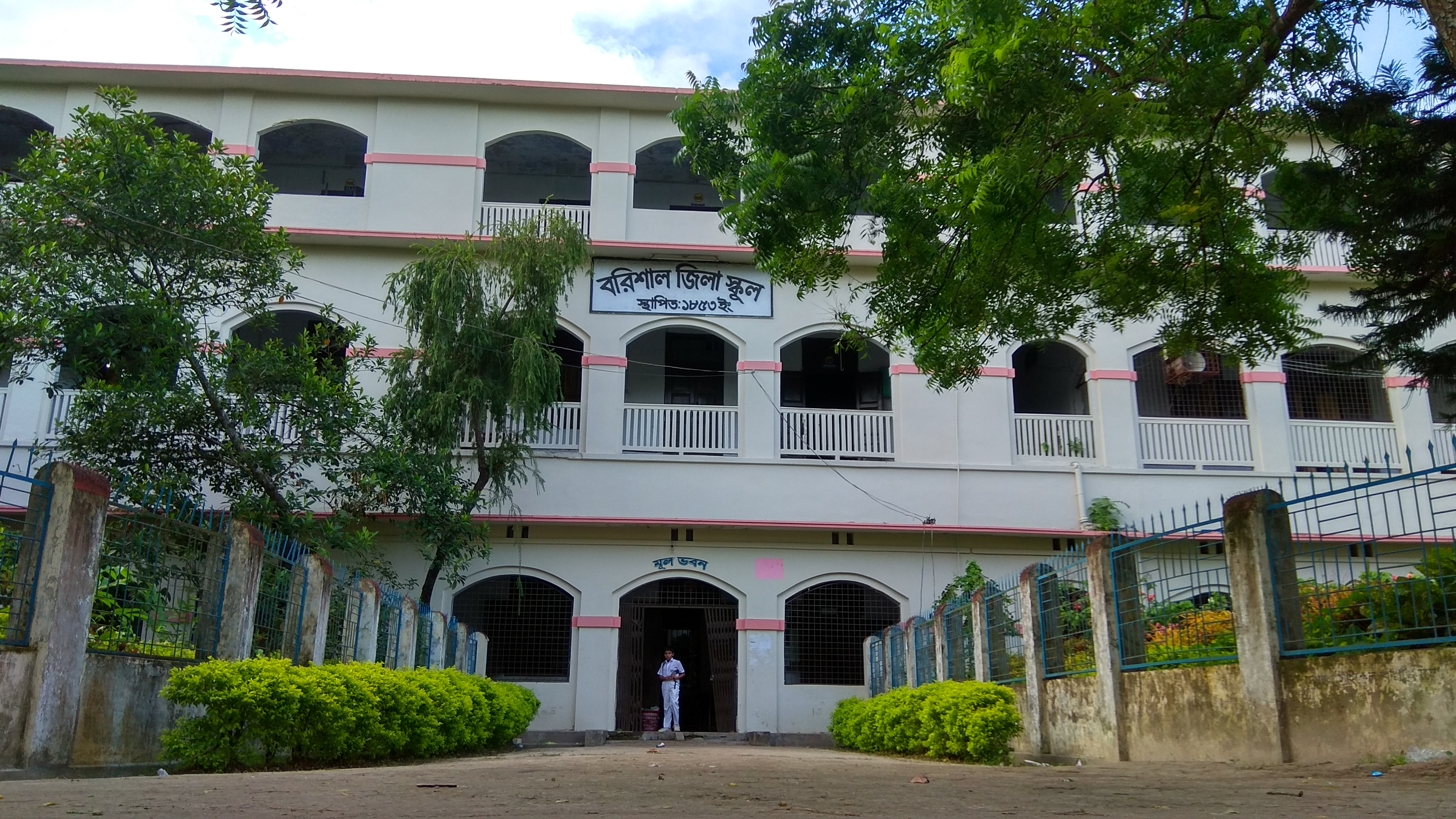 Barisal Zilla School is one of the oldest educational institution in South Asia, located in city of Barisal, Bangladesh